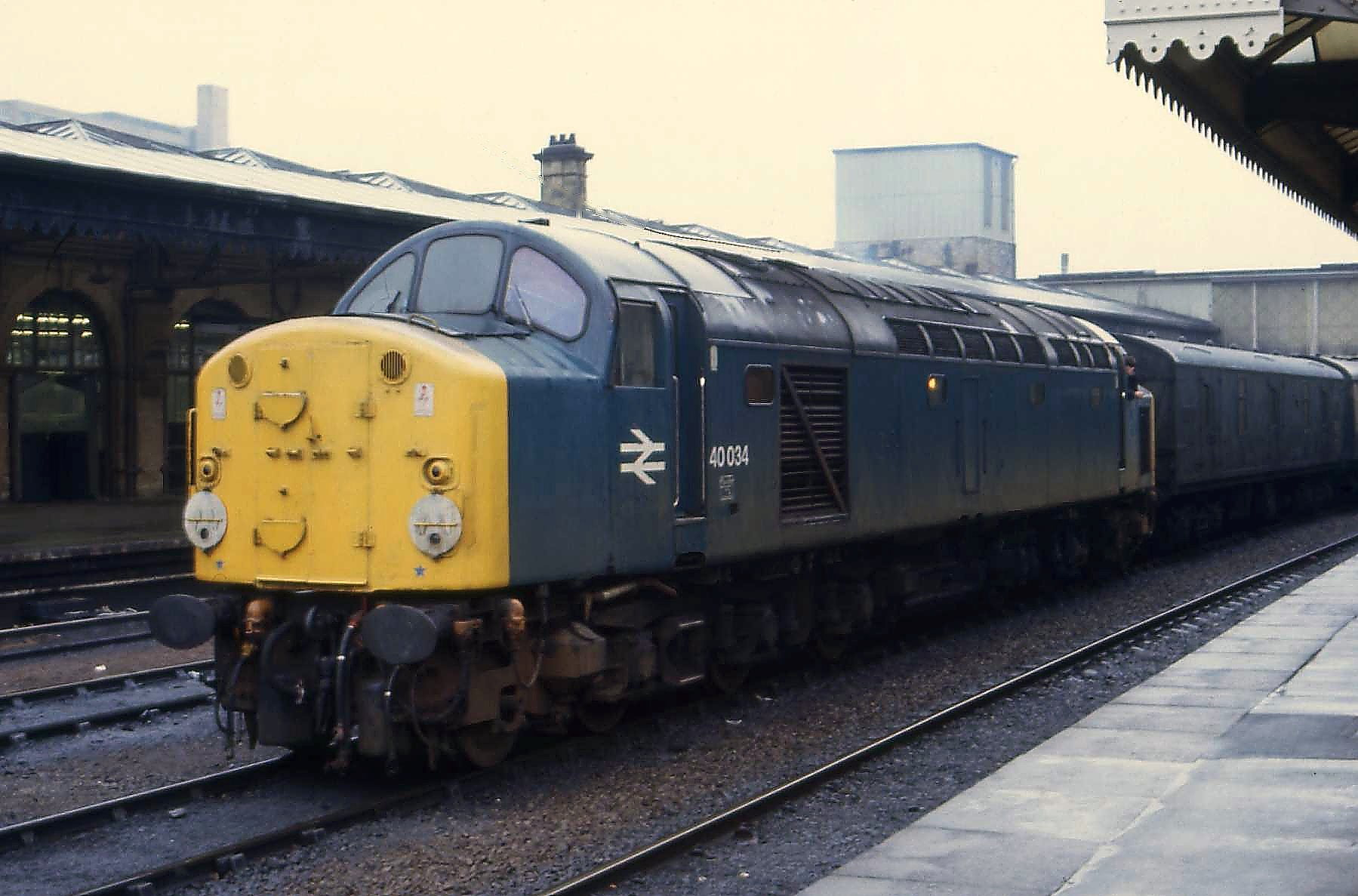 40034 Sheffield